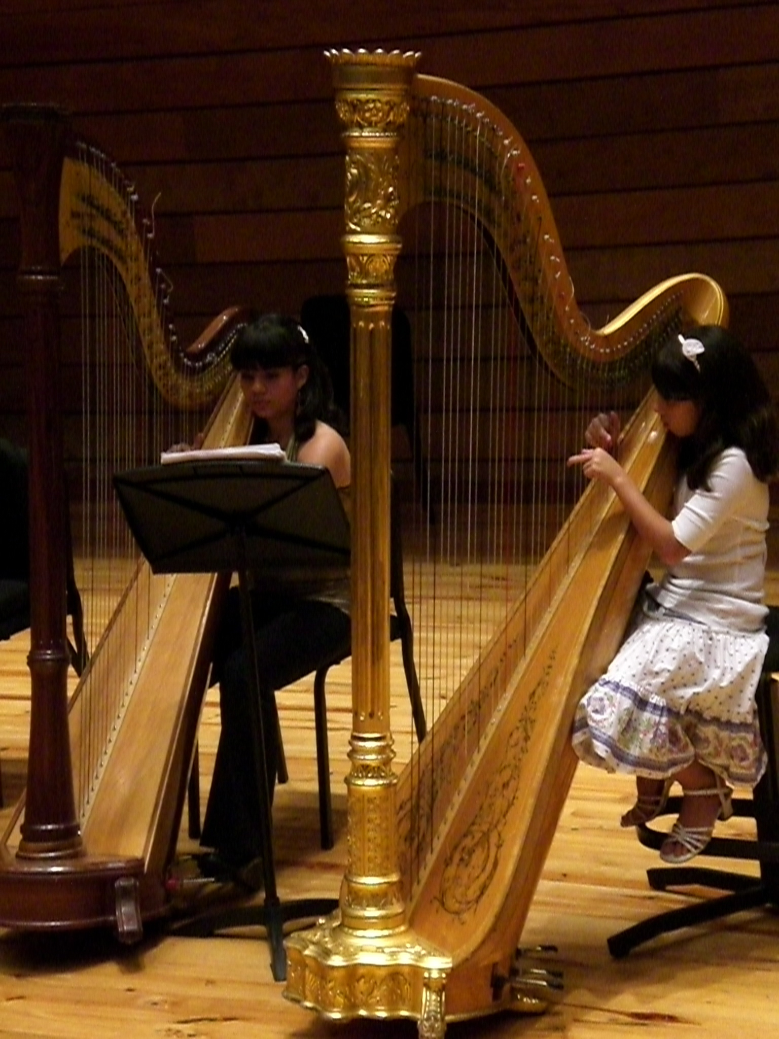 Two girls playing the classic harp, Caracas, Venezuela.